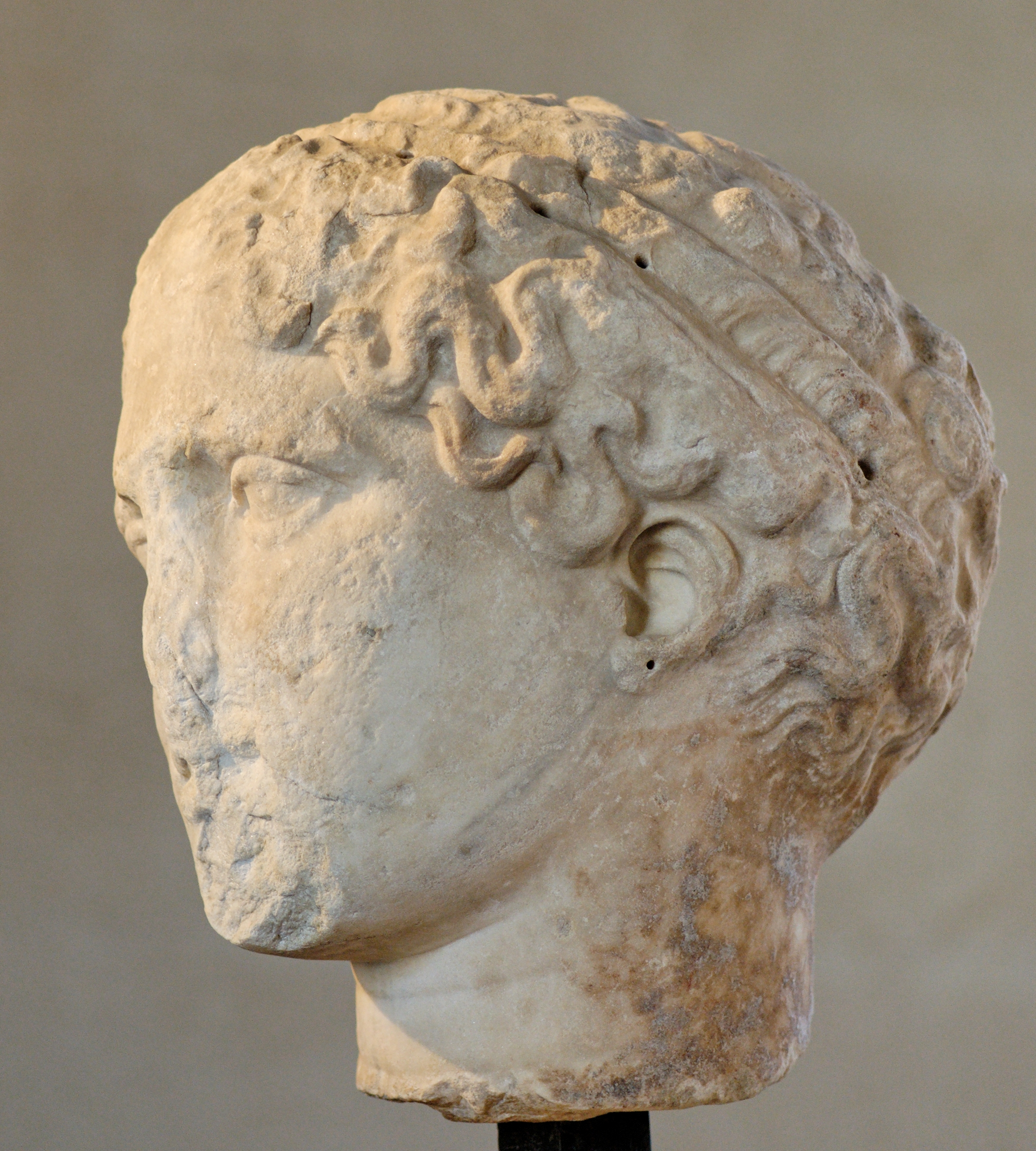 So-called “Weber-Laborde head”, usually interpreted as the head of Iris, West pediment N of the Parthenon. Pentelic marble, ca. 447–433 BC.